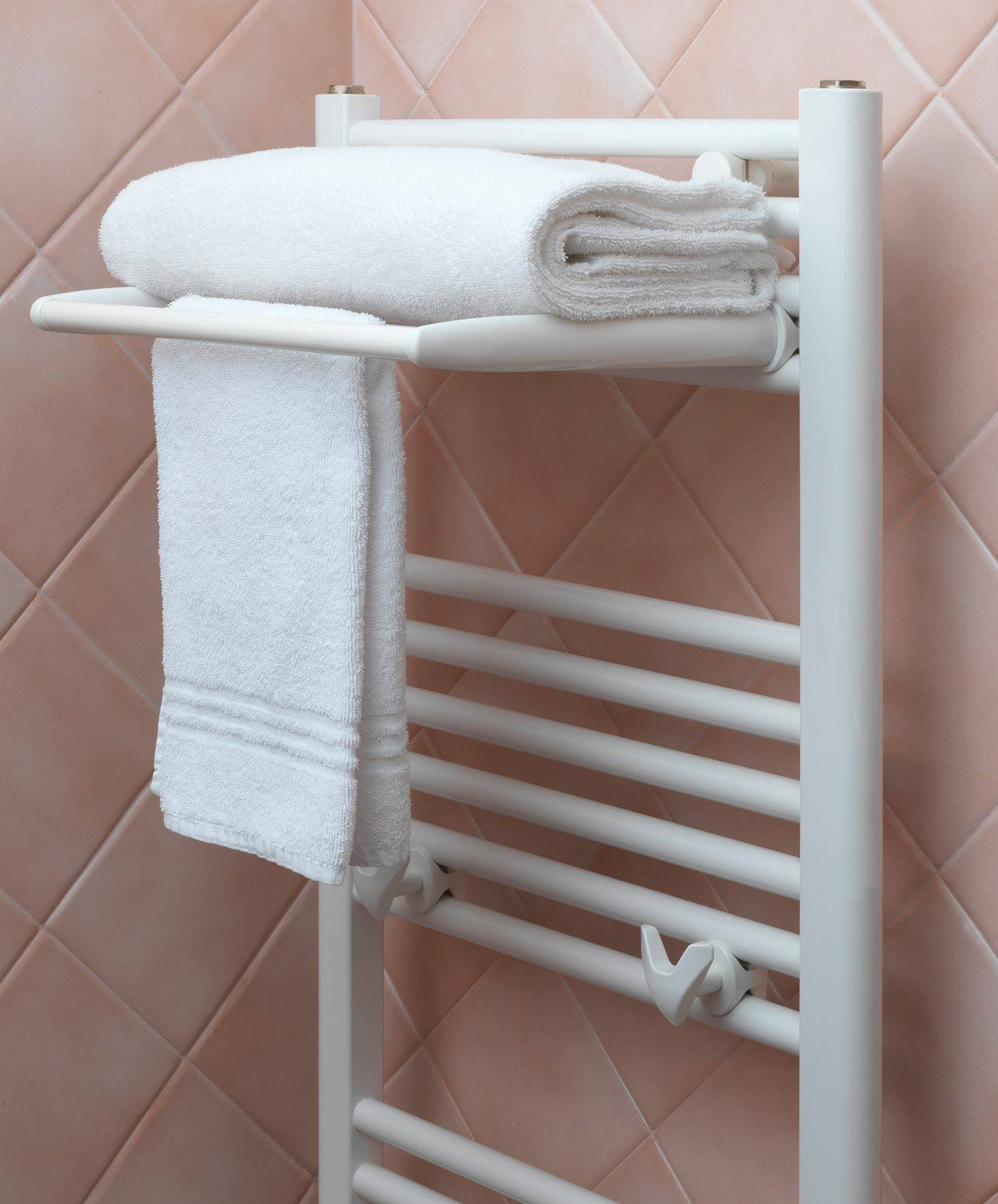 Classic hydronic white towel rails radiator, with 25 mm diameter tubes. Hanger for radiator with white towels